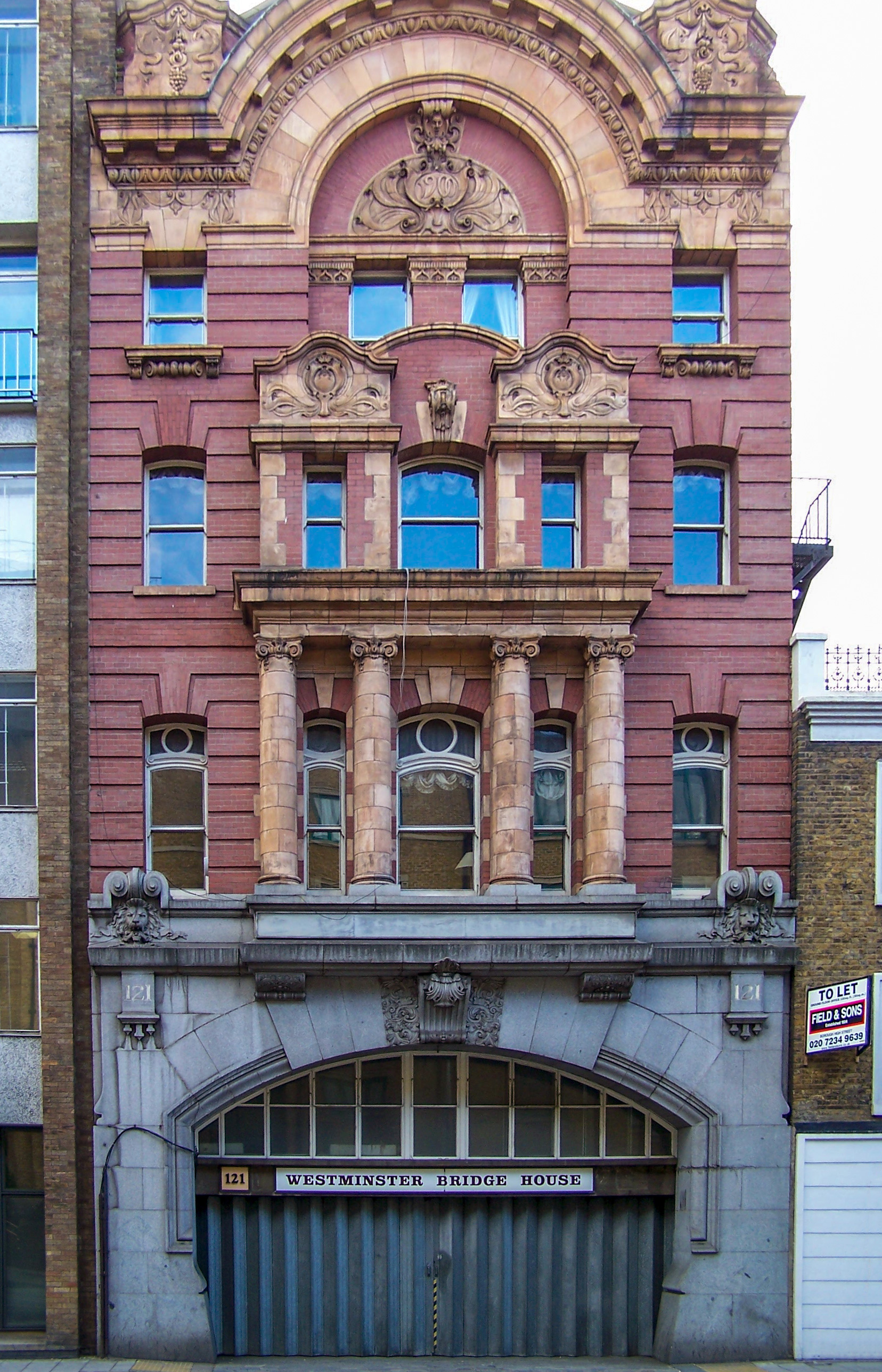 A photograph of 121 Westminster Bridge Road, London, near London Waterloo station. The building is all that remains of the London terminus of the London Necropolis Railway system, which originally linked London with Brookwood Cemetery. The railway platforms were bombed during the London Blitz, and were never repaired.